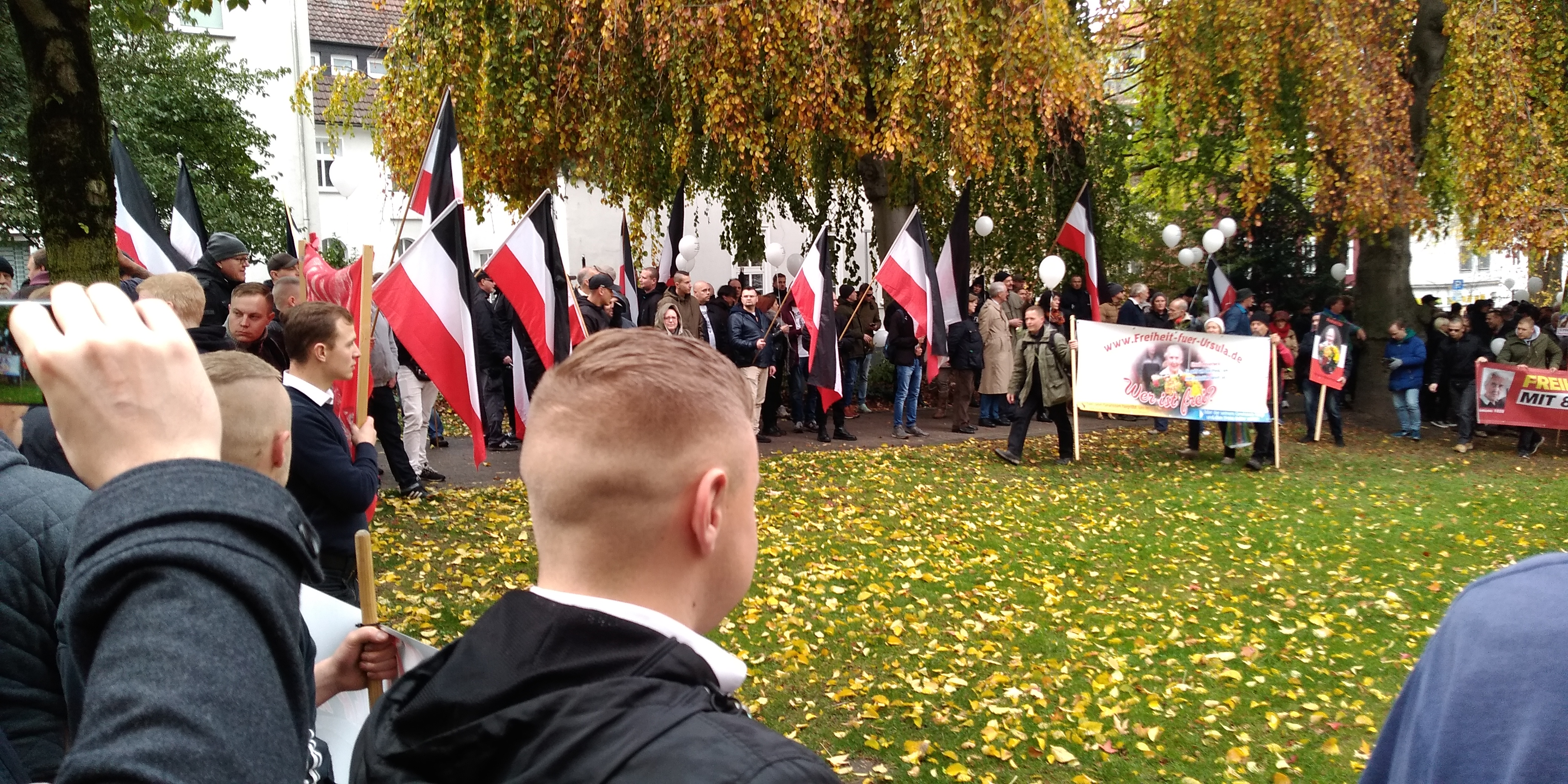 Meetingtalk